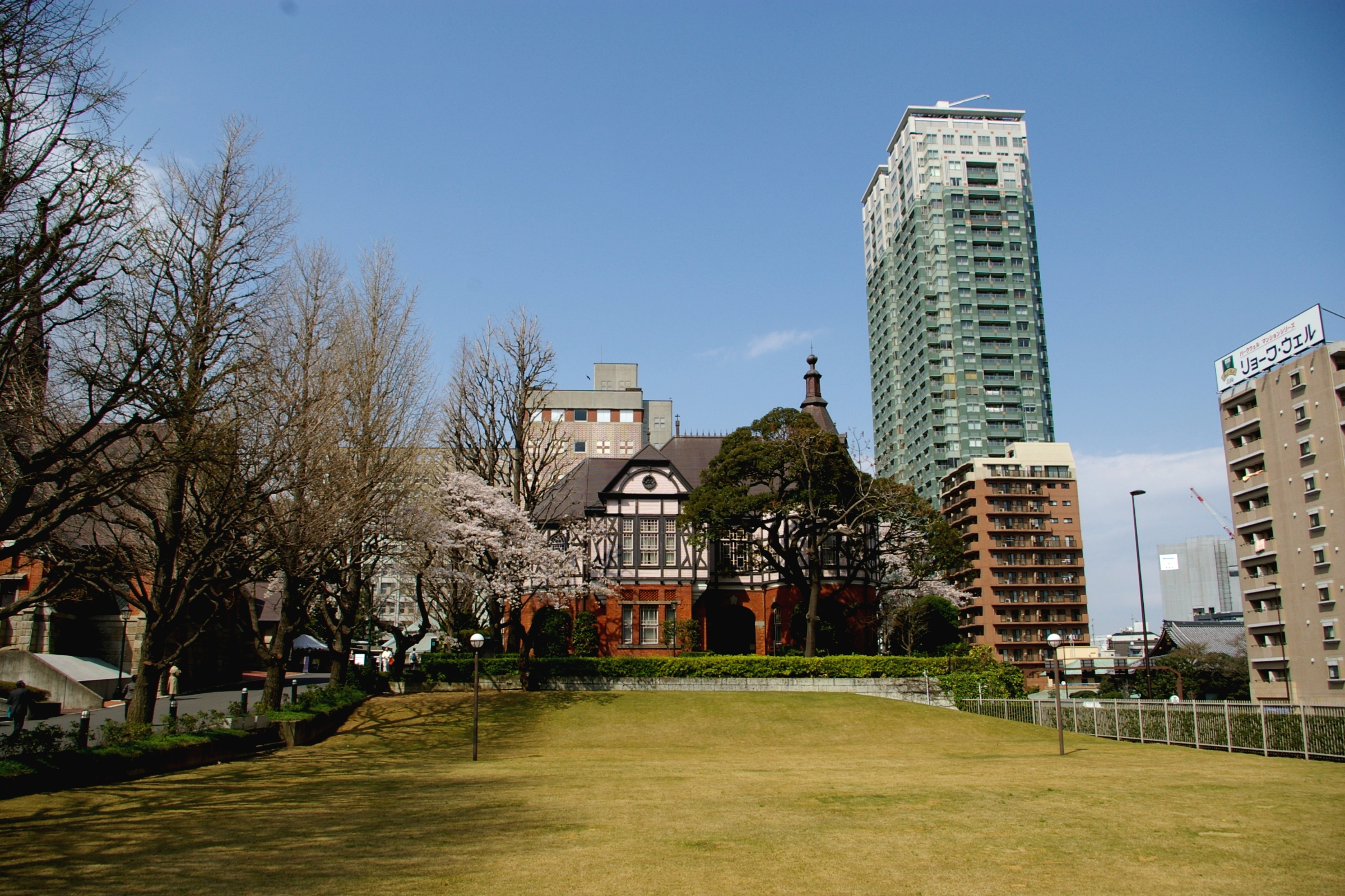 Meijigakuin University in the cherry blossom season